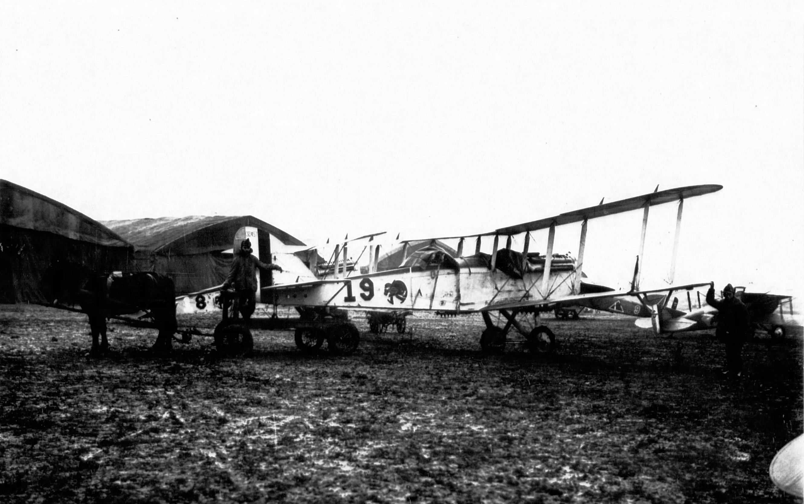 Colombey-les-Belles Aerodrome - 1st Air Depot DH-4 Source: Series 1, Paris Headquarters and Supply Section, Volume 30 History of the 1st Air Depot at Colombey-led-Belles, Gorrell's History of the American Expeditionary Forces Air Service, 1917–1919, National Archives, Washington, D.C.